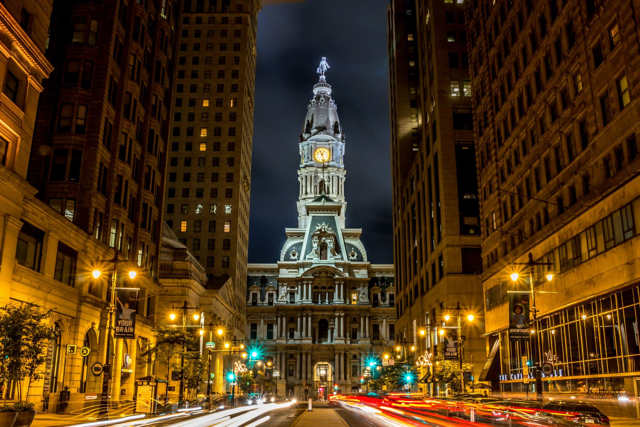 Philadelphia City Hall Shot from Broad St